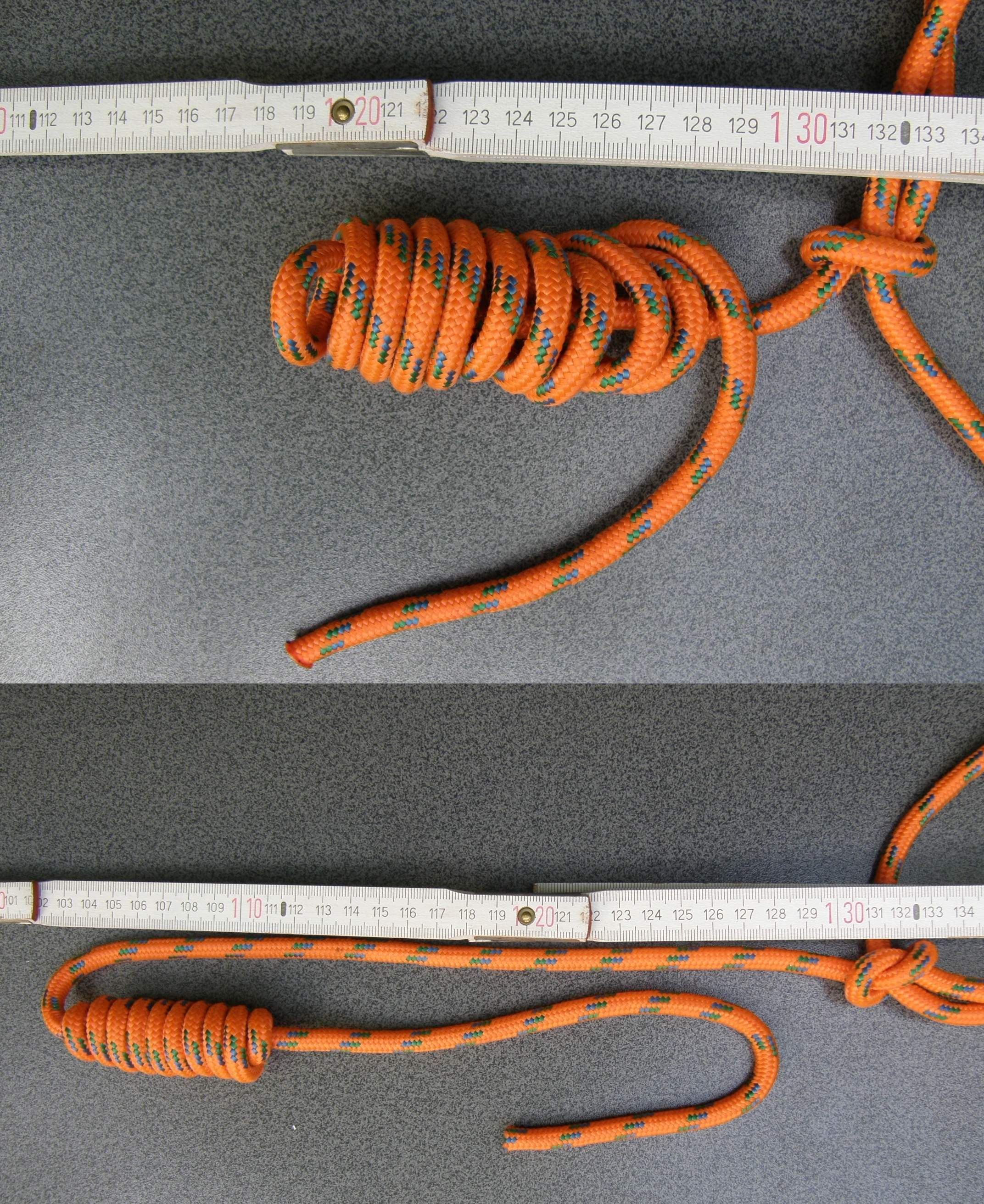 multi overhandknot 10x, start with 11x